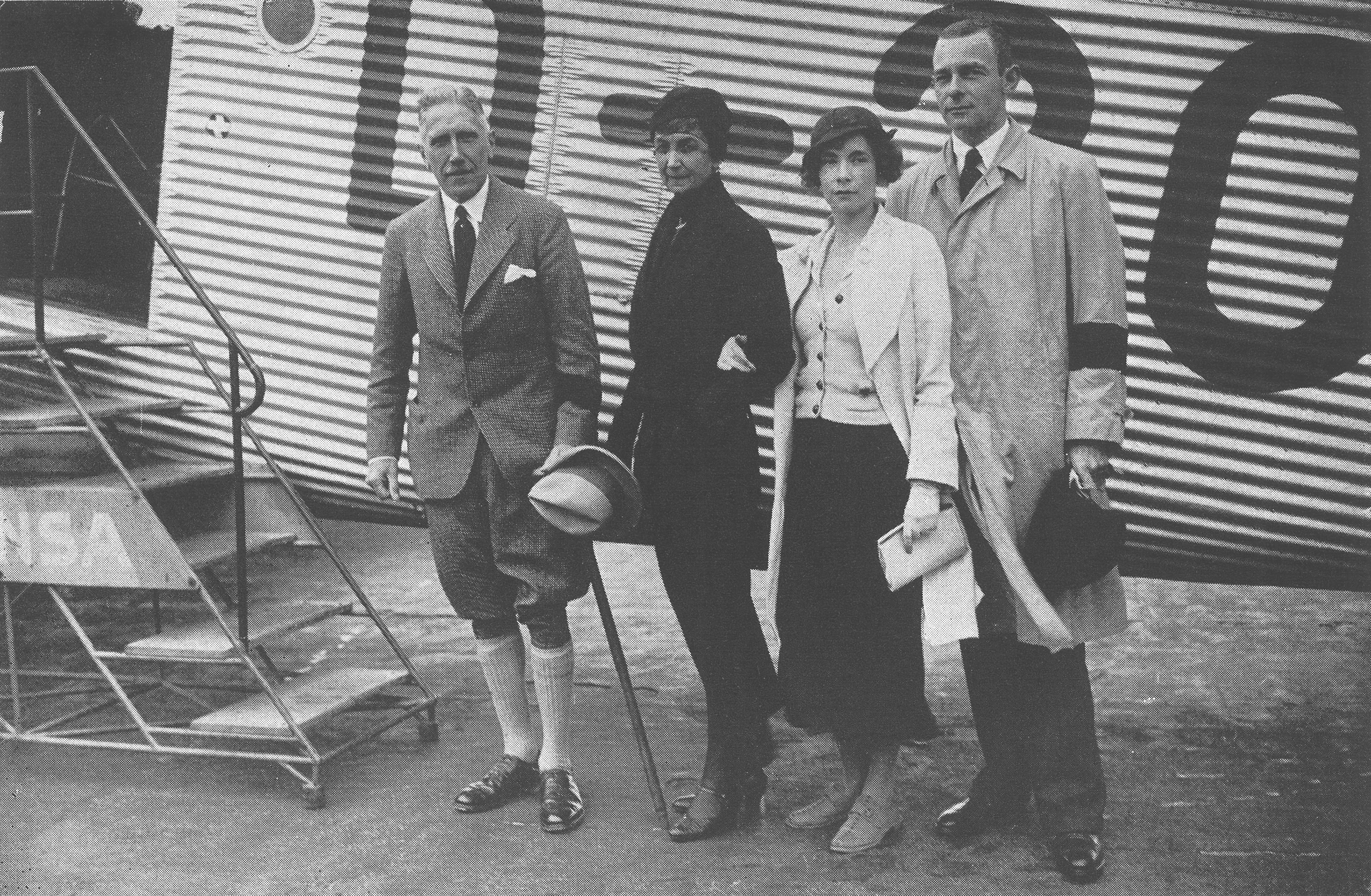 Franz von Papen shortly after his appointment to the office of German ambassador in Vienna in July 1934. Picture taken at the Tempelhof Airfield in Berlin, just before von Papen's depature to Vienna. Left to right: Franz von Papen, Mrs von Papen, Mrs Tschirschky and Papen's chief of staff Fritz Günther von Tschirschky